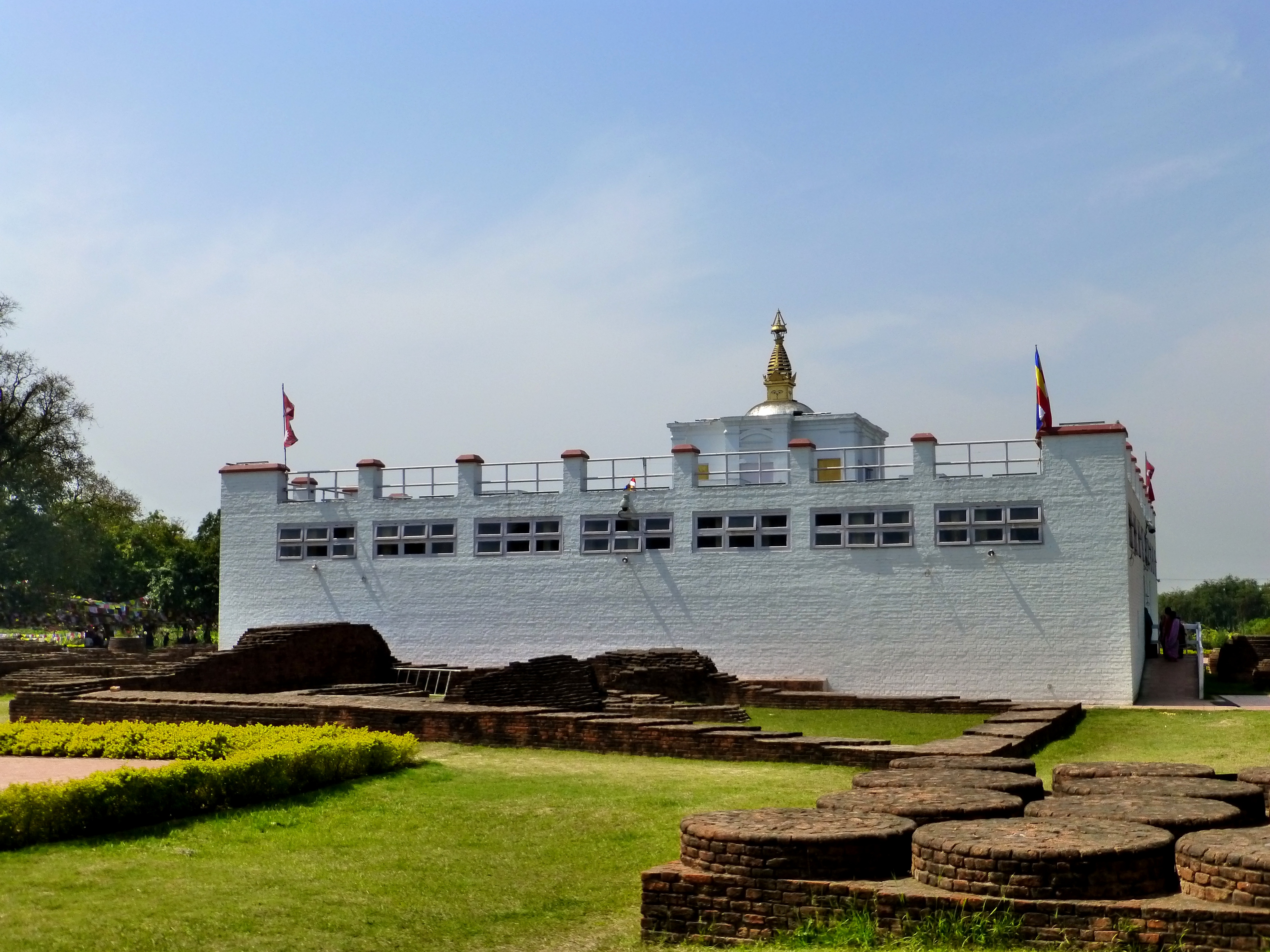 03 Mayadevi Temple from West, Lumbini. Photograph from Lumbini in Nepal taken by Anandajoti.